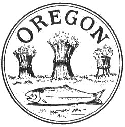 Provisional Government of Oregon seal.